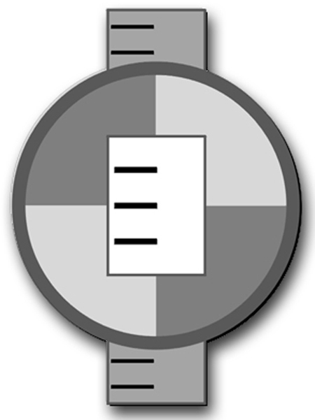 US Navy Engineering Aid (EA). A leveling rod with the measuring scale to the front.